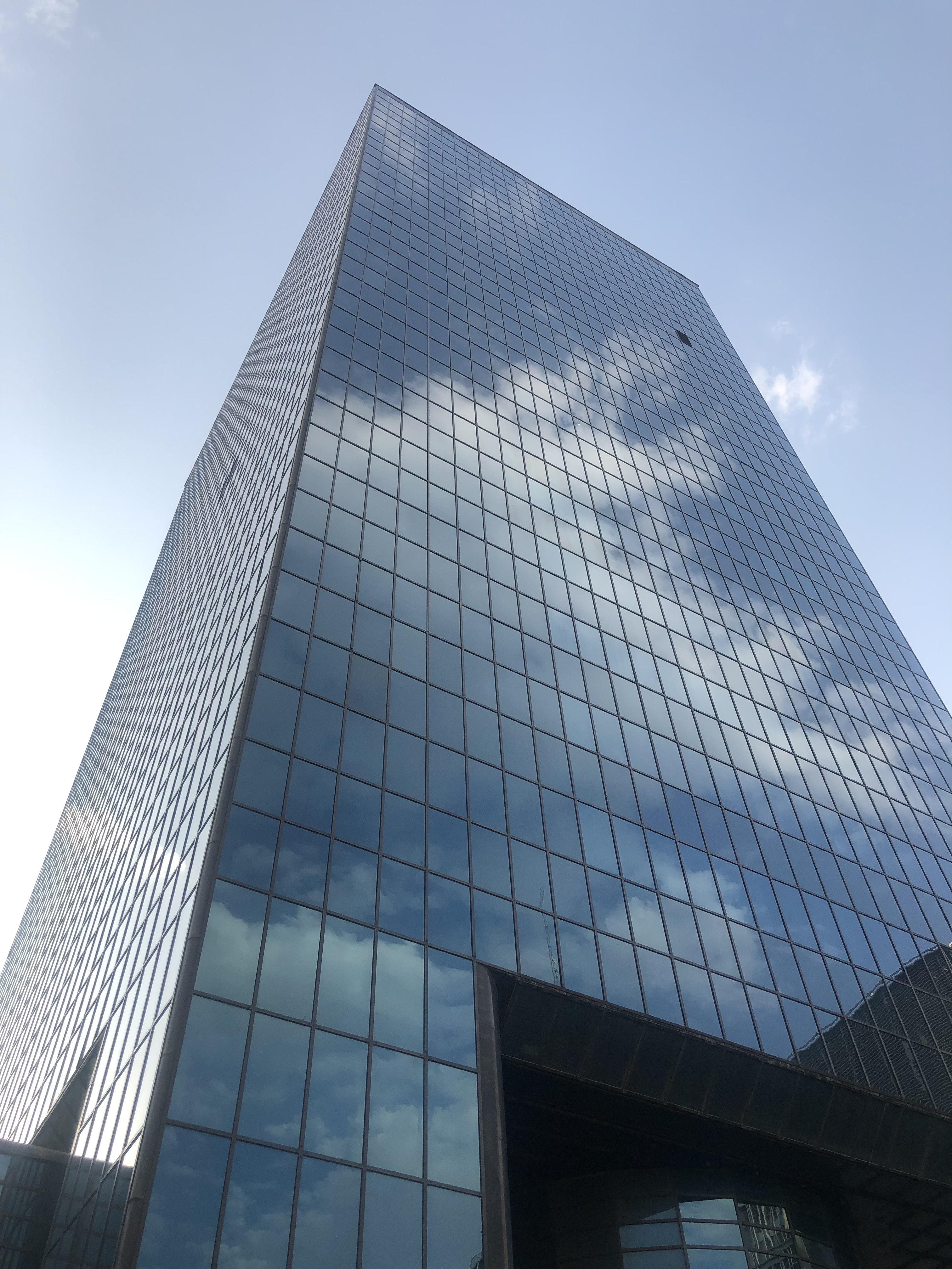 Melat Bank headquarters